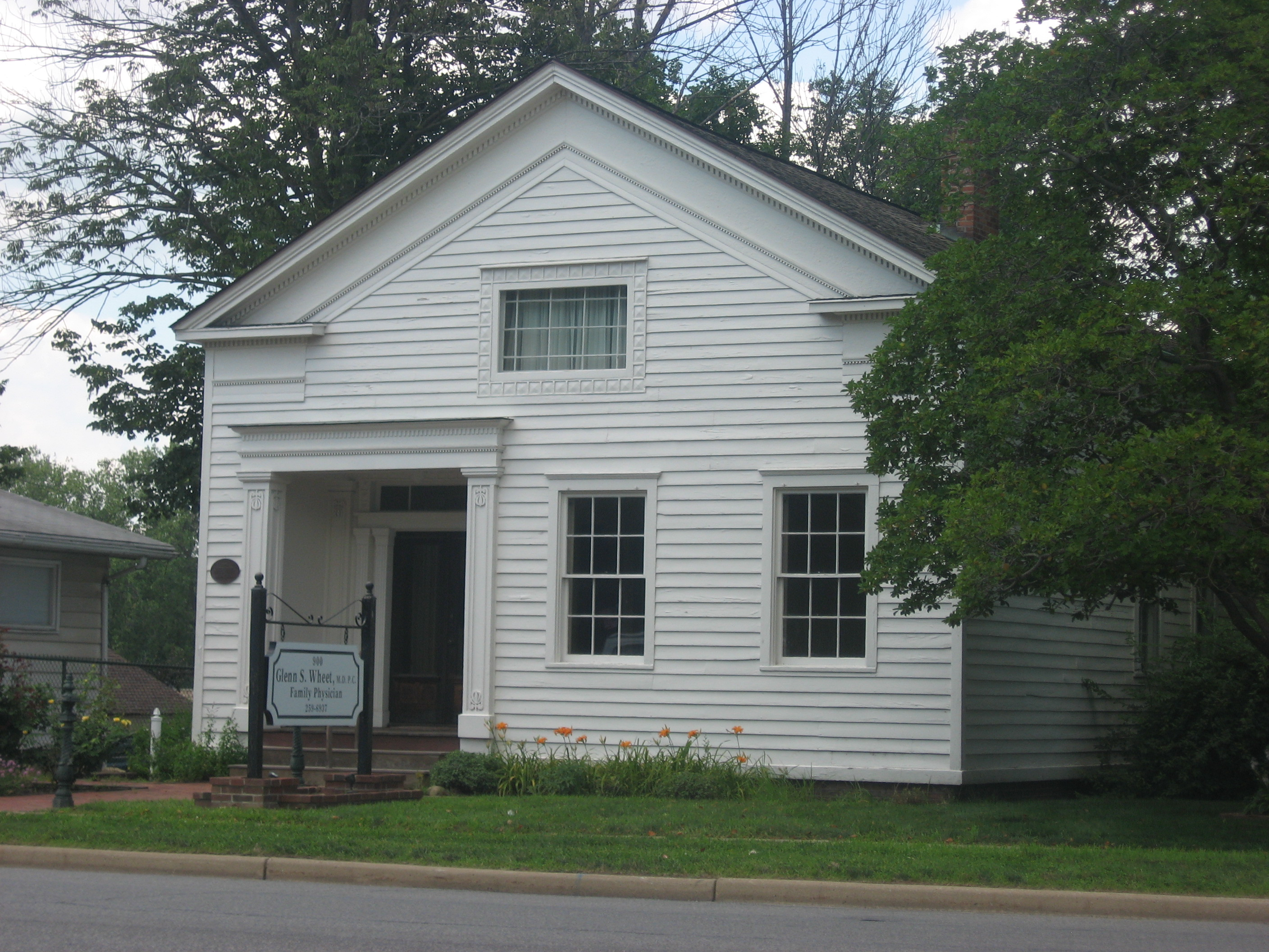 Front of the Ellis-Schindler House, located at 900 W. Lincolnway (State Road 933) in Mishawaka, Indiana, United States. Built in 1834, it is listed on the National Register of Historic Places.